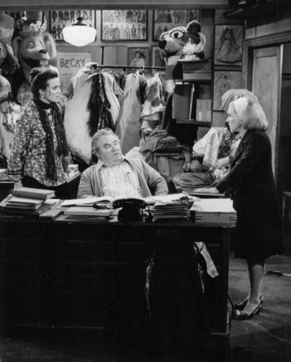 Photo from the television program Rhoda. Pictured are Valerie Harper (Rhoda), Kenneth McMillan (Rhoda's boss) and Nancy Walker (Rhoda's mother, Ida). Ida takes a job at the costume store where her daughter works.